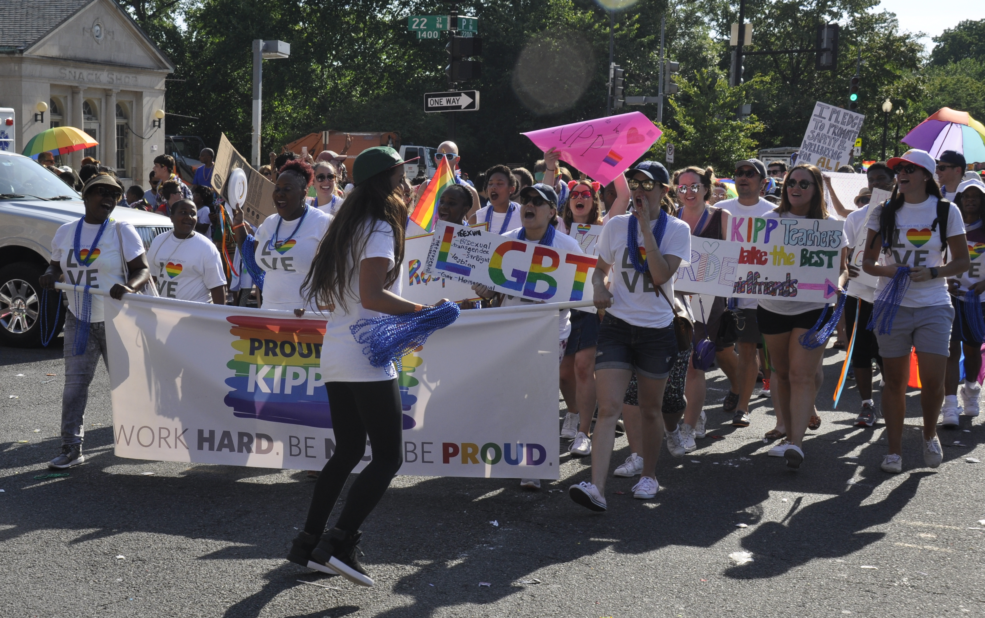 2017 Capital Pride in Washington, D.C.